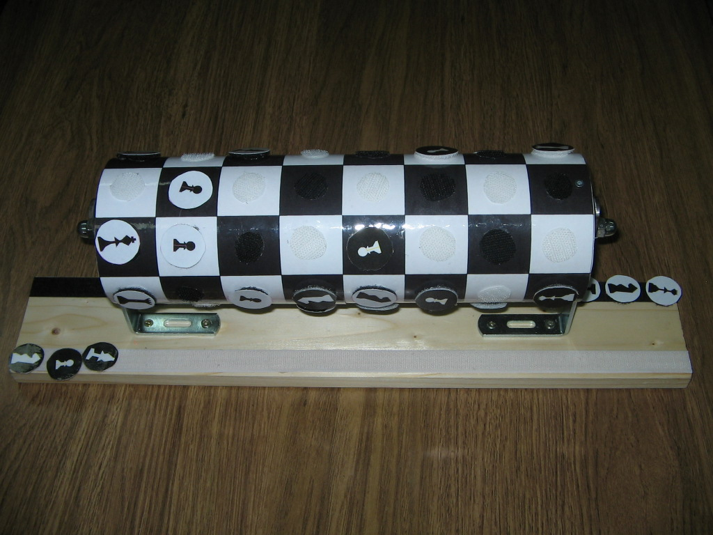 A cylindrical chessboard. Chessboard made by Emanuela Ughi (University of Perugia).